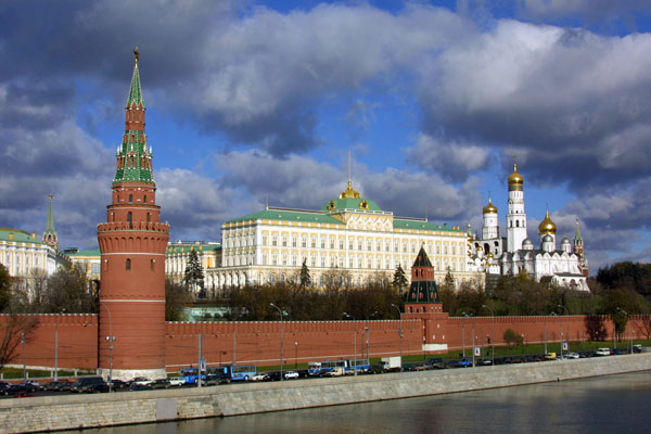 Moscow, the Kremlin. Grand Kremlin Palace